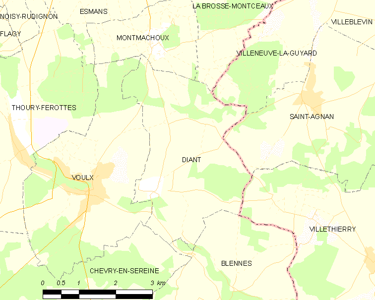 Map of French municipality Diant